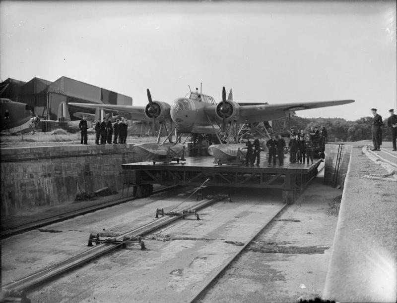 Royal Air Force Coastal Command, 1939-1945. A Fokker T-VIIIW seaplane of No. 320 (Dutch) Squadron RAF, attended by Dutch Naval groundcrew, being taken down to the water on a carrier at Pembroke Dock, Pembrokeshire.